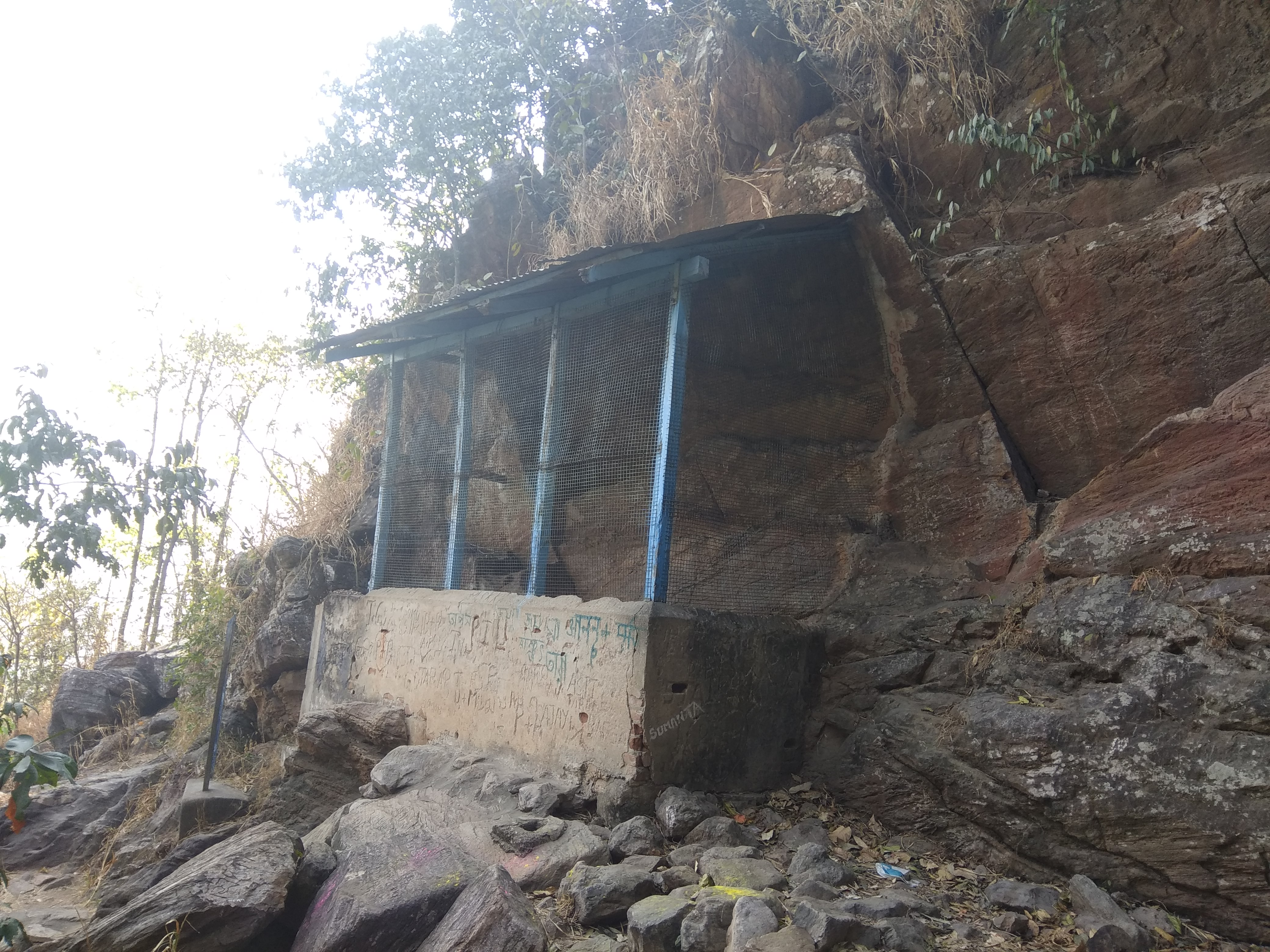 Stone inscription site of Chandravarman at Susunia hill, Bankura district, West Bengal, India